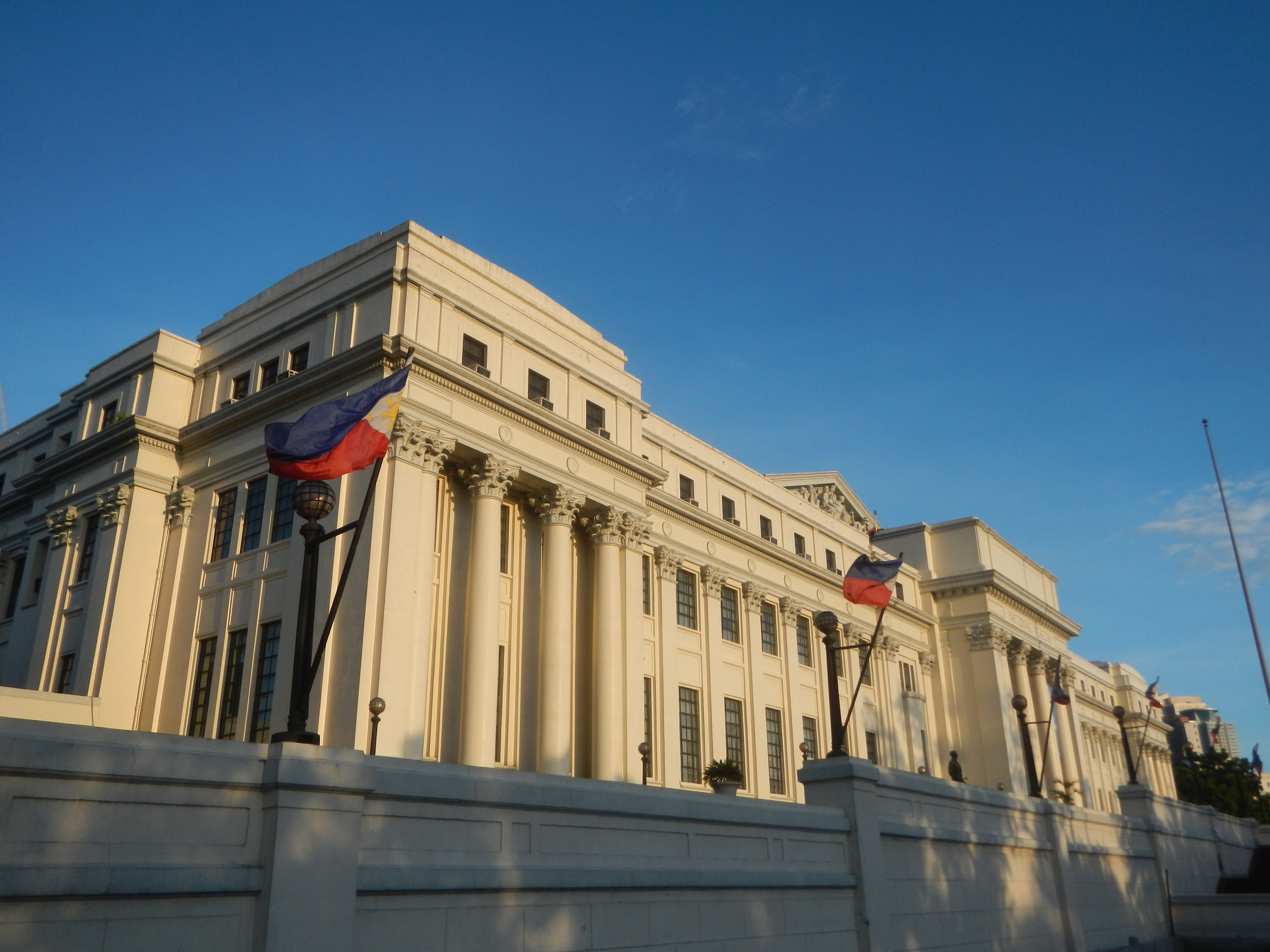 National Museum Complex (Manila) 14°35'6"N 120°58'54"E Old Congress Building, Manila National Museum of the Philippines a) National Museum of Fine Arts (Manila) b) Museum of the Filipino People Finance Road corner Padre Burgos Avenue in Ermita, City of Manila; (Note: Judge Florentino Floro, the owner, to repeat, Donor Florentino Floro of all these photos hereby donate gratuitously, freely and unconditionally all these photos to and for Wikimedia Commons, exclusively, for public use of the public domain, and again without any condition whatsoever).